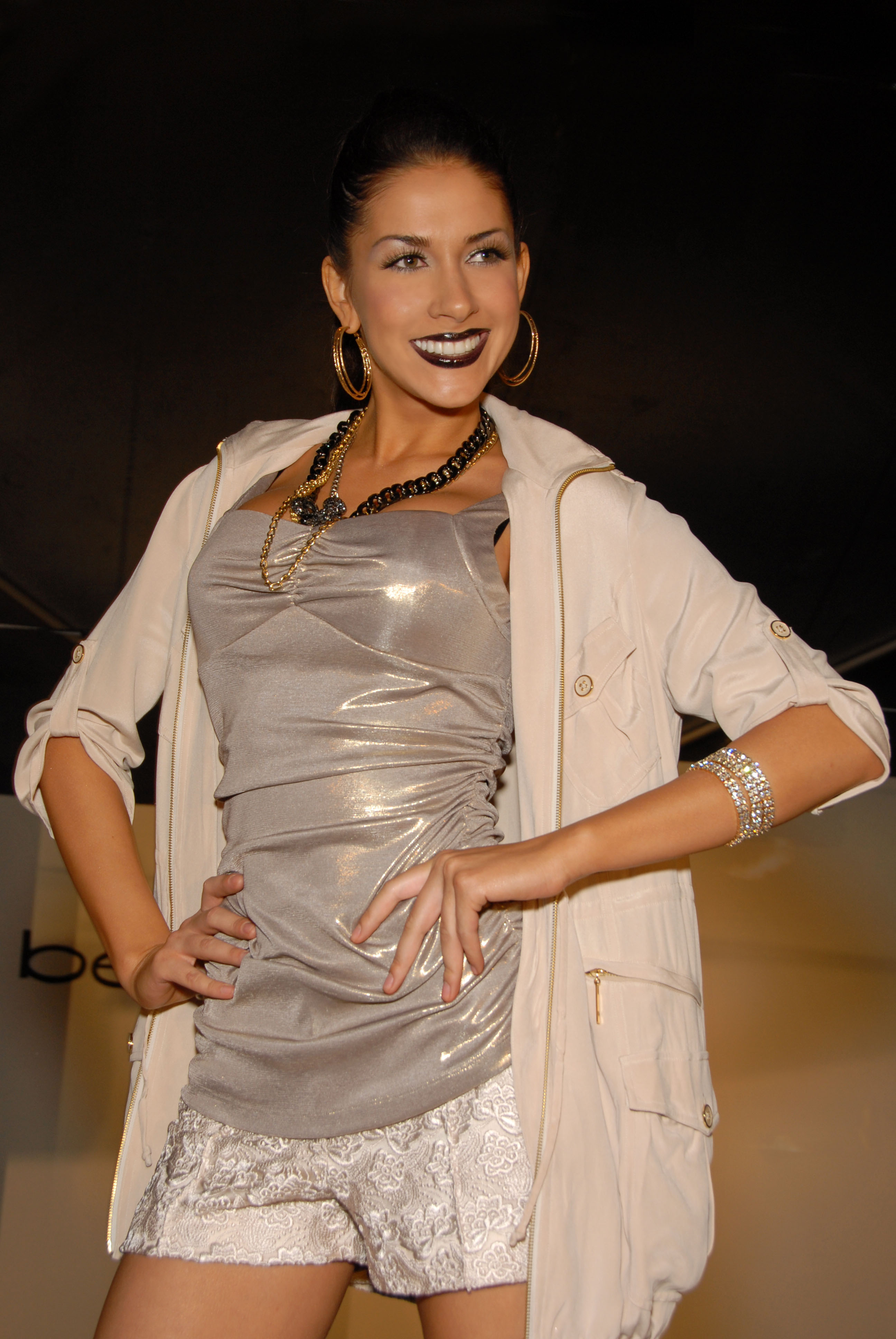 Bebe Hot Pants modeled by Larysa Poznyak - Photo by Glenn Francis of